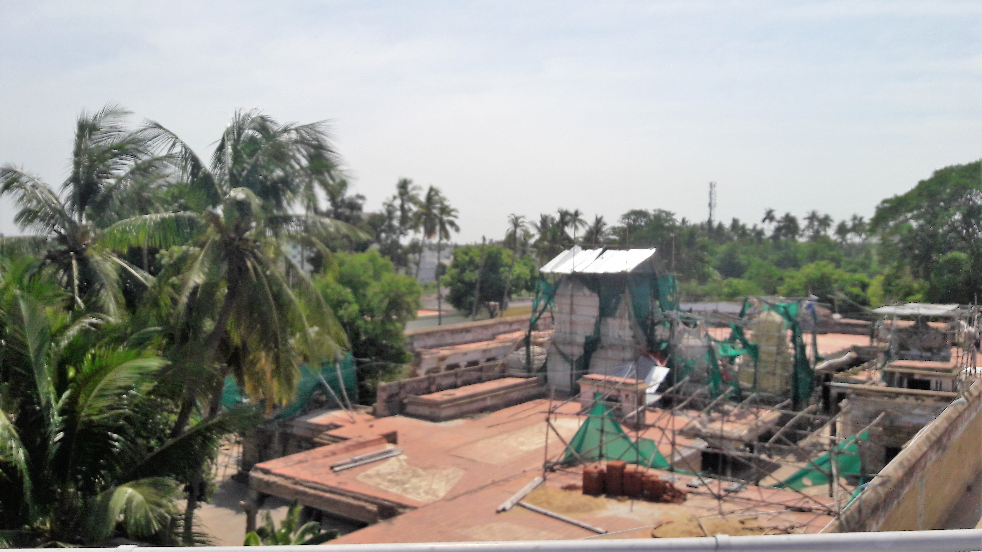 Uthamar Kovil